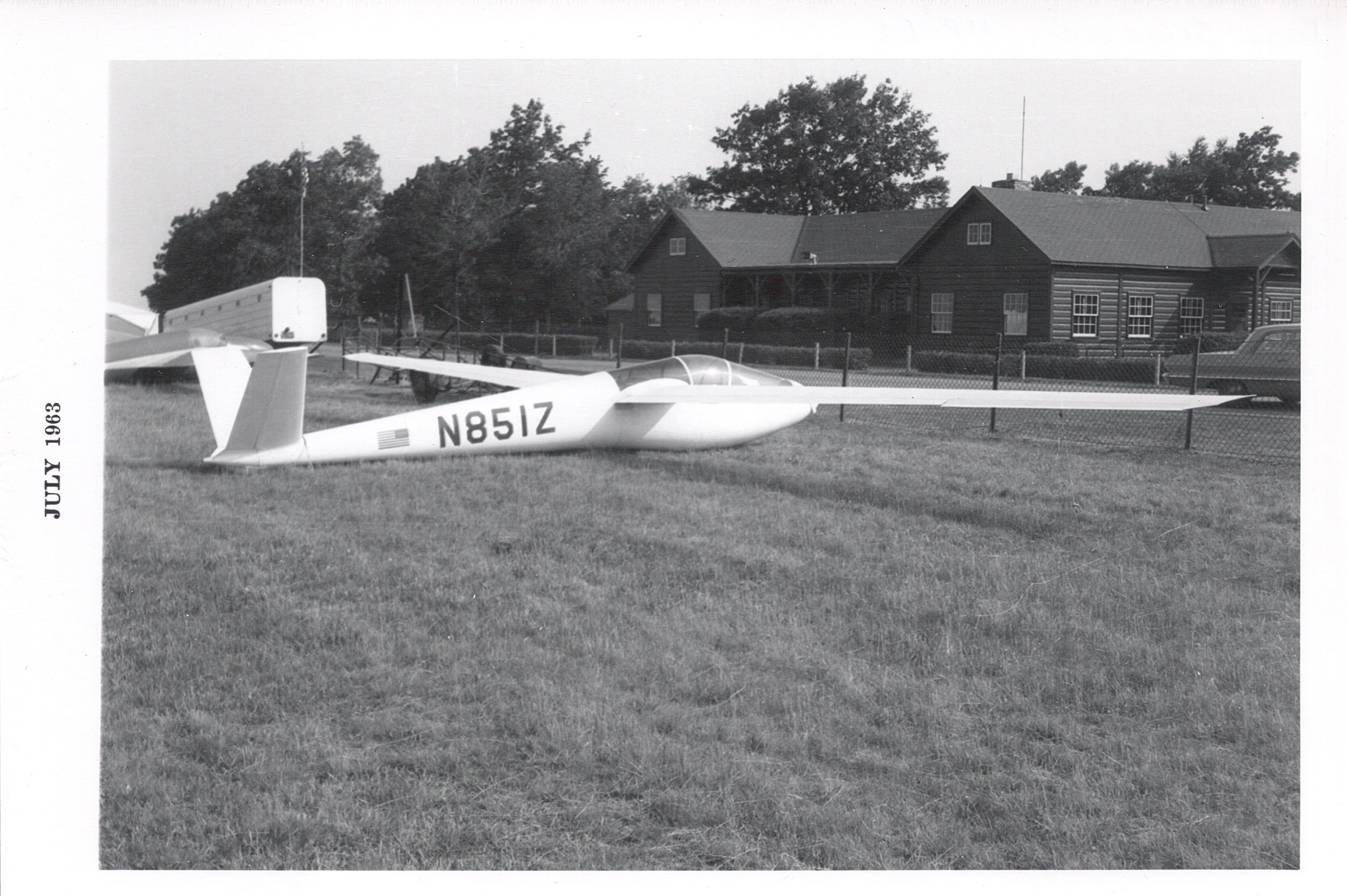 Dick Schreder's HP-11 at the 1963 US Soaring Championships at Harris Hill, Elmira, NY. Taken by David V Robison